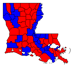 Self-created image showing county-by-county results of the 1996 US Senate election in Louisiana